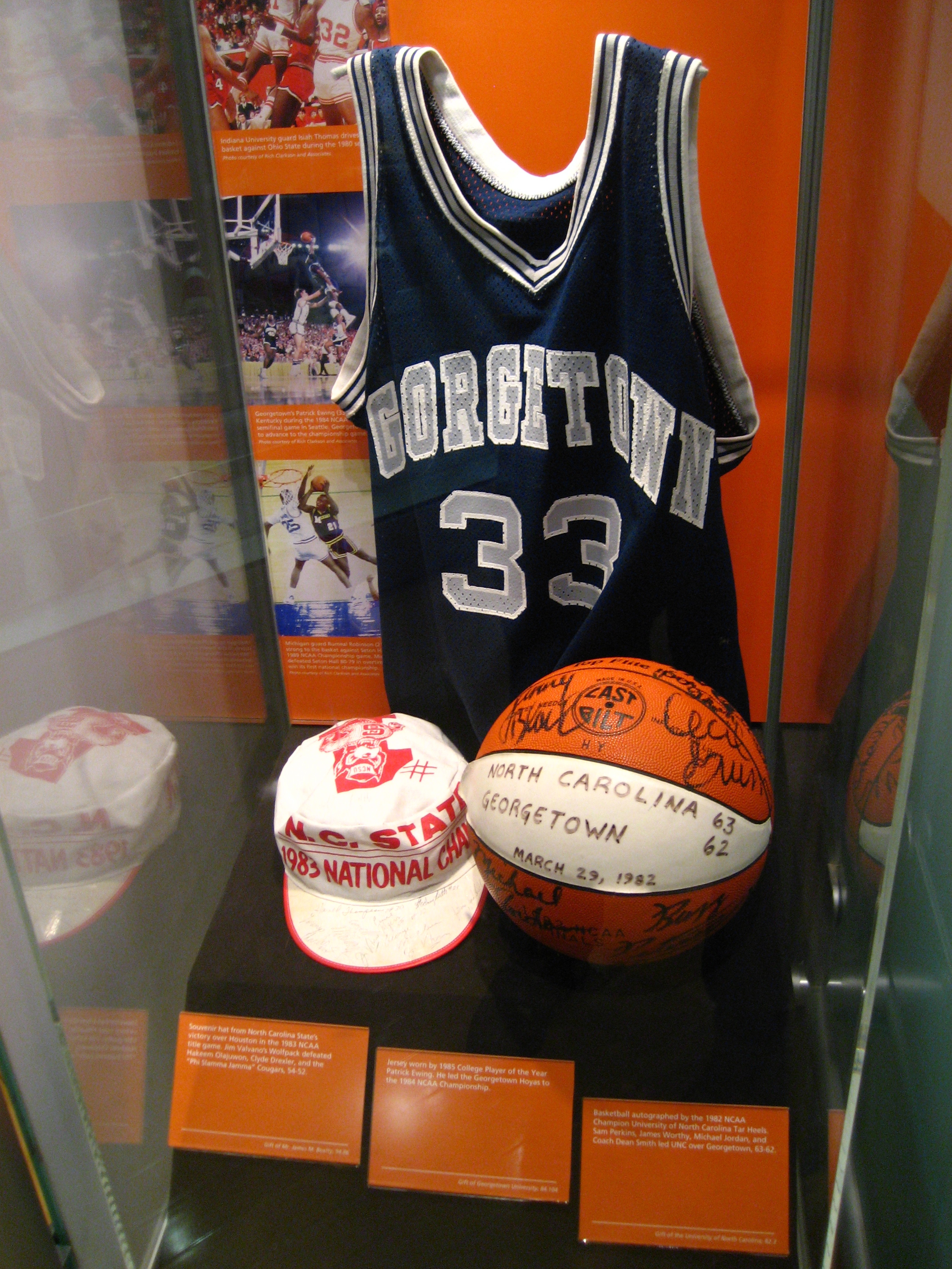 Patrick Ewing college jersey at the Basketball Hall of Fame